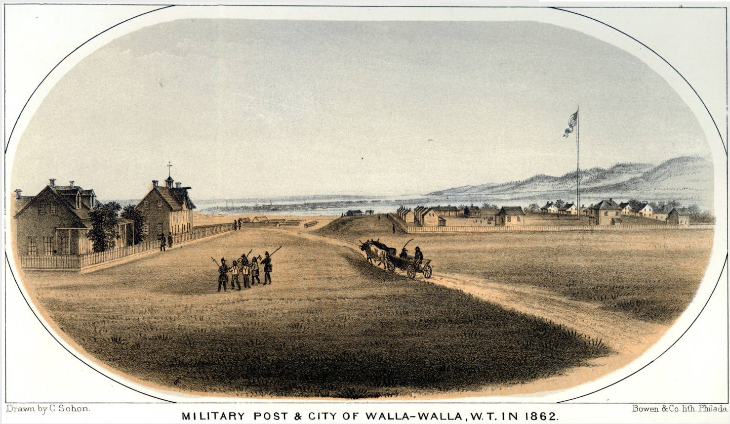 Fort Walla Walla and the city of Walla Walla in the Washington Territory of the United States in 1862.